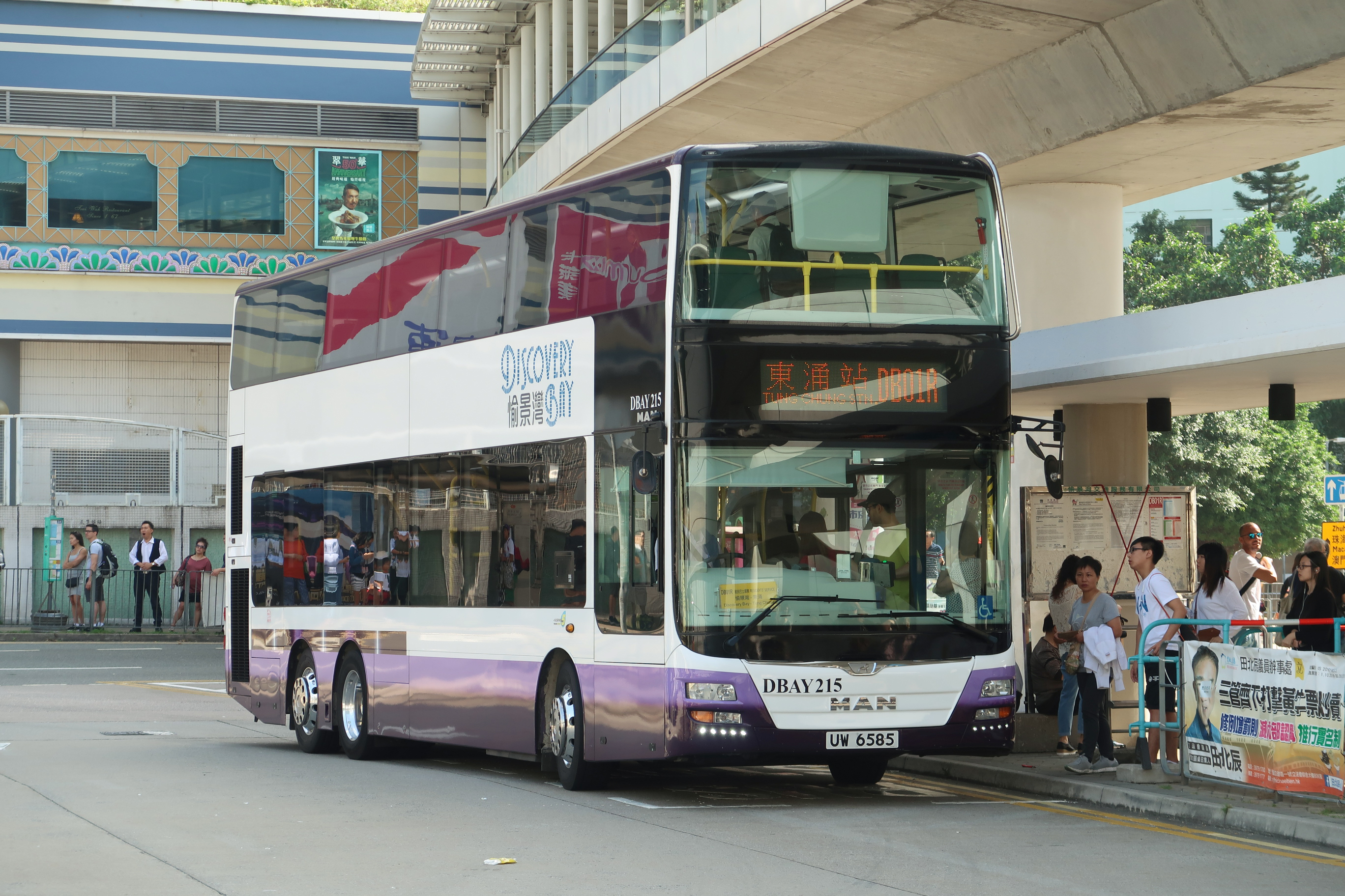 Discovery Bay Bus D801R 愉景灣巴士DB01R線